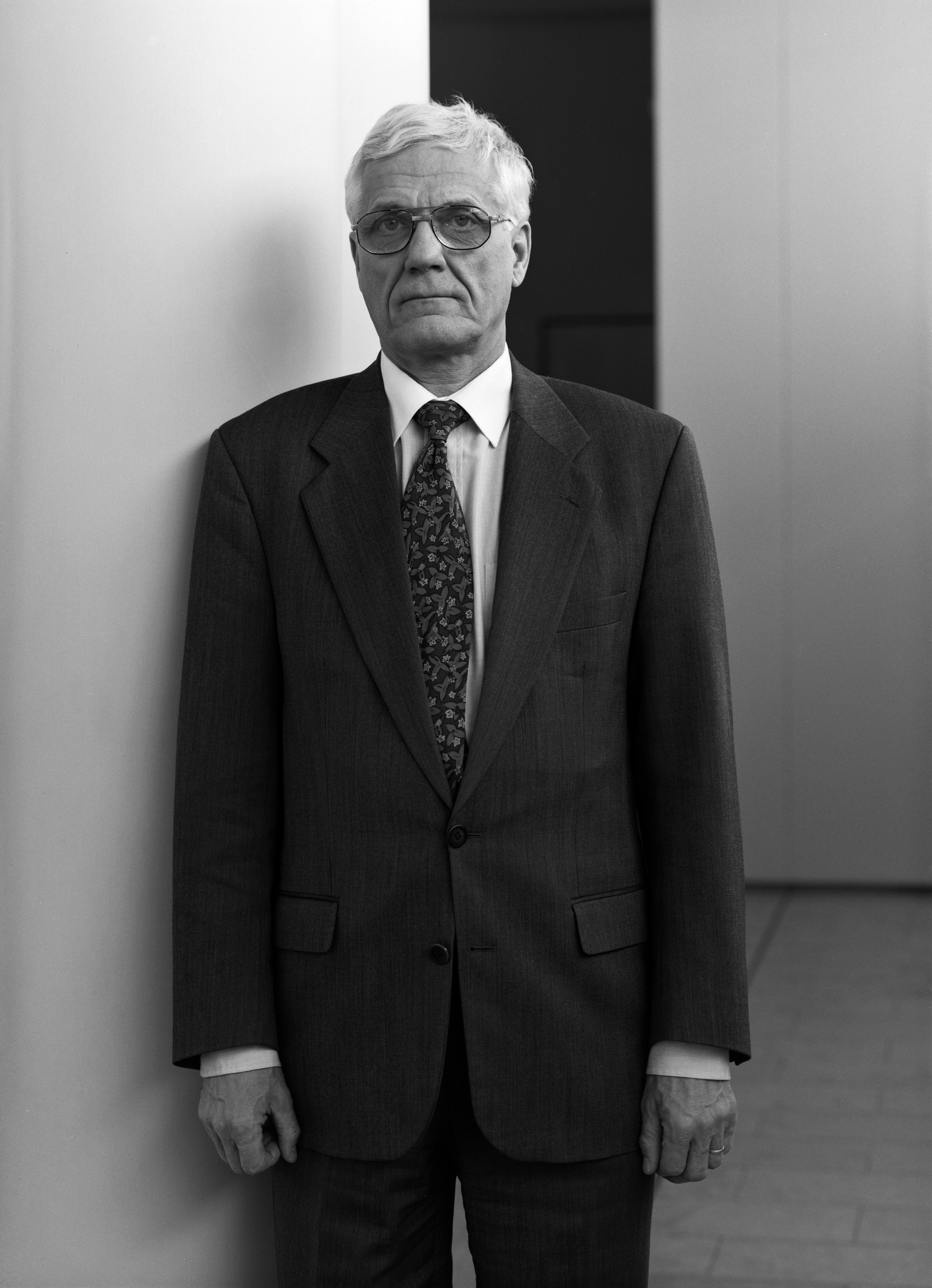 Photograph of the Finnish politician, Mayor of Helsinki, Kari Rahkamo (1933–).